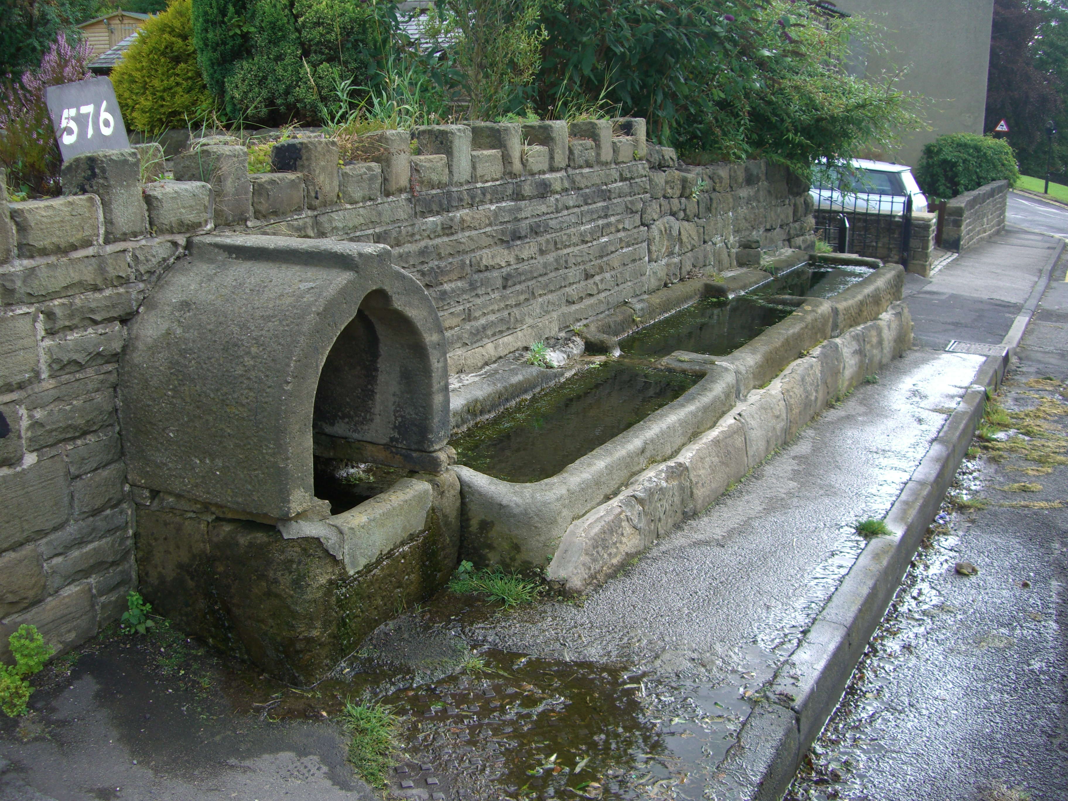 Water troughs in Loxley, Sheffield, England.